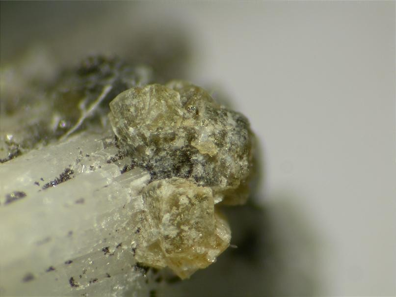 Thomasclarkite-(Y) Locality: Poudrette quarry (Demix quarry; Uni-Mix quarry; Desourdy quarry), Mont Saint-Hilaire, Rouville RCM, Montérégie, Québec, Canada (Locality at ) Field of view 4 mm. Specimen and photo Leon Hupperichs.